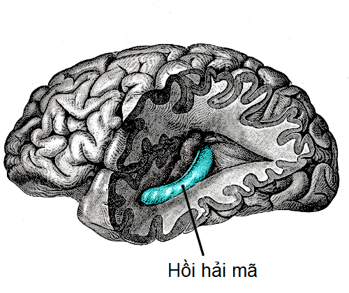 Posterior and inferior cornua of left lateral ventricle exposed from the side